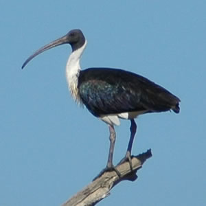 Bird, Straw-necked Ibis, Threskiornis spinicollis